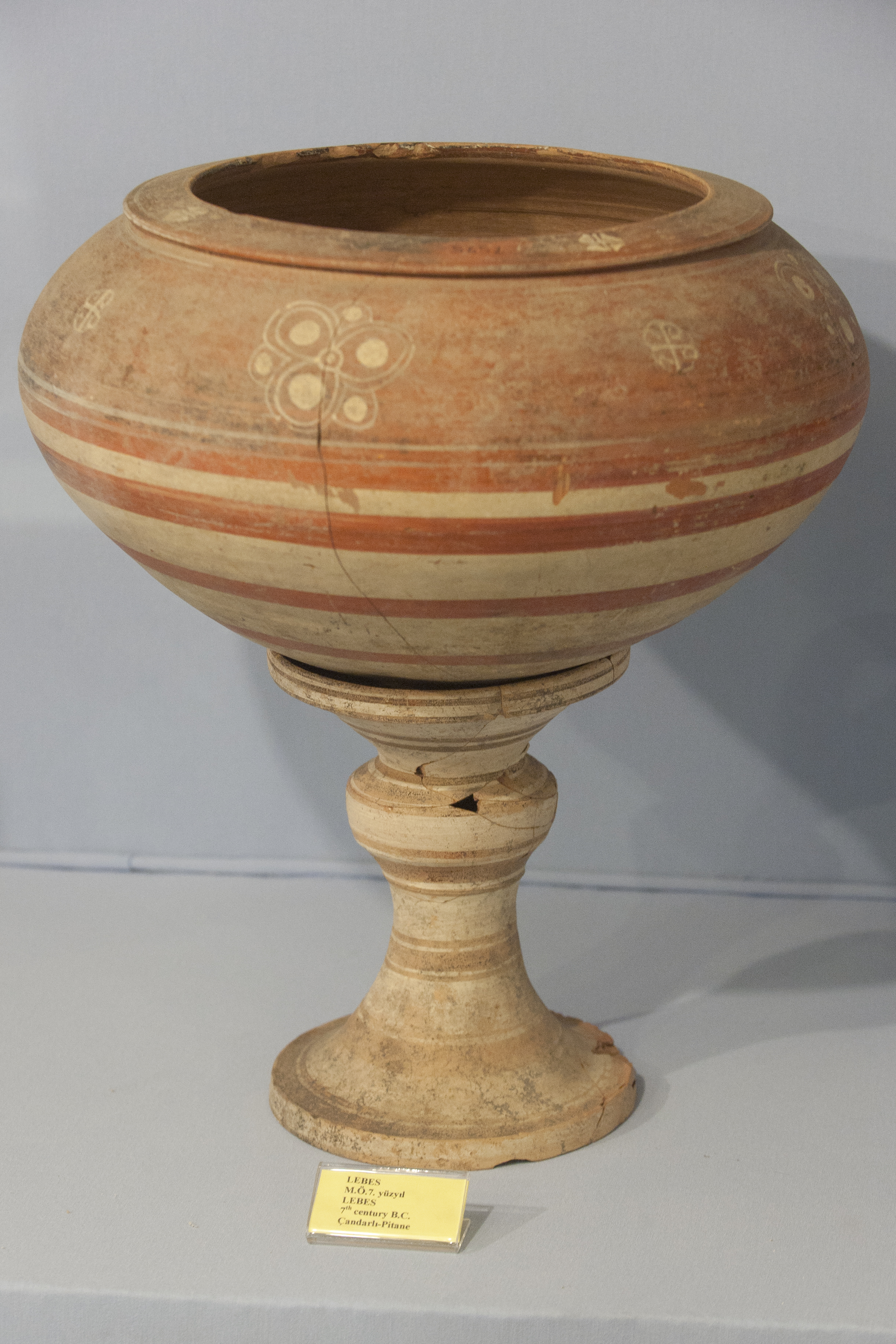 Lebes. 7th century BC. From Çandarlı-Pitane. From the Wikipedia: The lebes (plural lebetes) was originally a type of ancient Greek pot, a deep bowl with a rounded bottom. It needed a stand, frequently a sacrificial tripod,[1] to remain upright. In classical times a foot was attached, and it was typically used as a mixing bowl in food preparation. One of the English translations of lebes is cauldron.